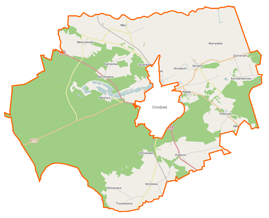 Map of Gmina Chodzież, Poland This map of Chodzież (gmina wiejska) was created from OpenStreetMap project data, collected by the community. This map may be incomplete, and may contain errors. Don't rely solely on it for navigation. Border coordinates53.064316.7270←↕→17.047352.9077